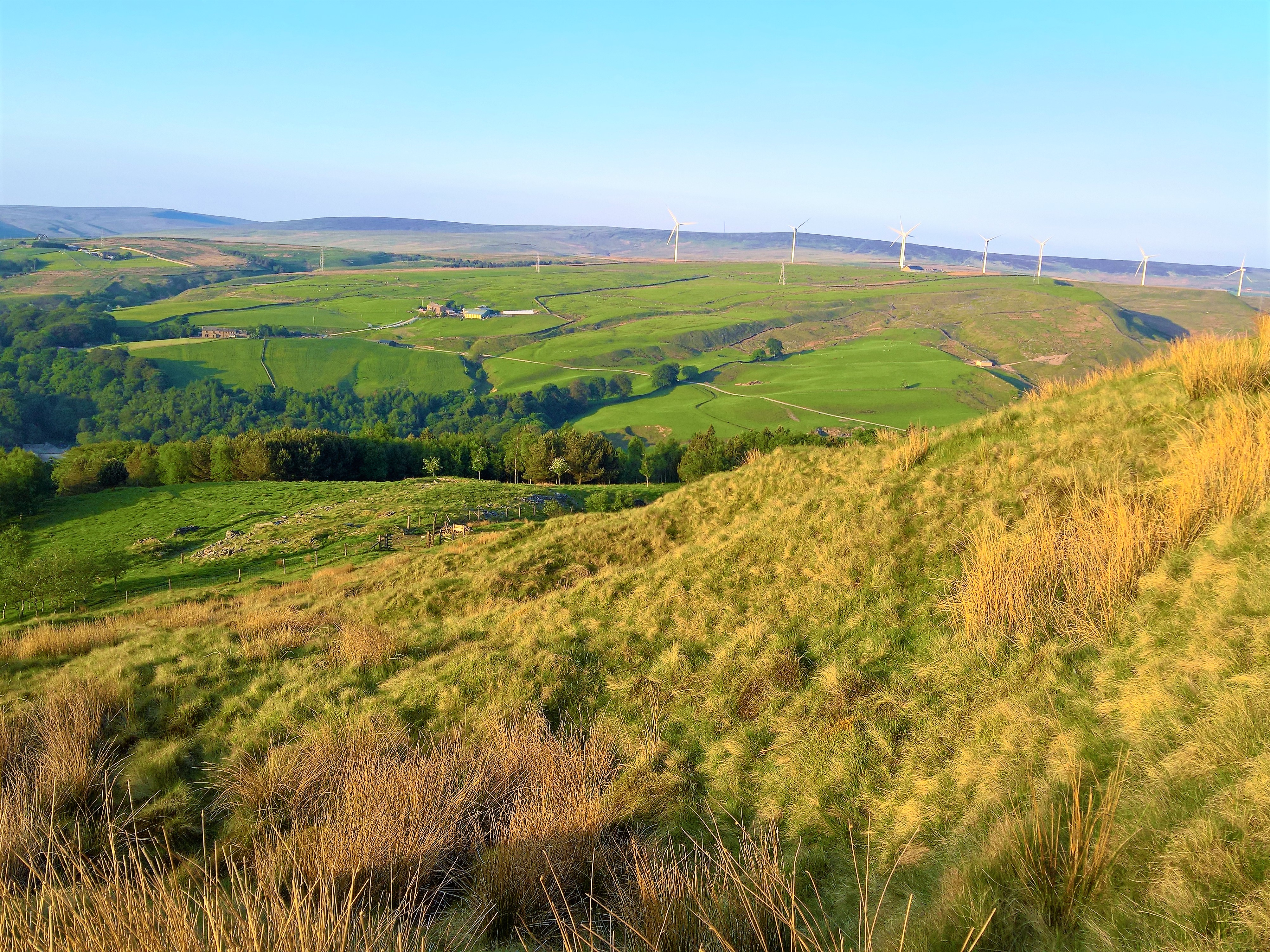 Thieveley lead mine 330m south west and 910m WSW of Buckleys Wikidata has entry Q17678426 with data related to this item.